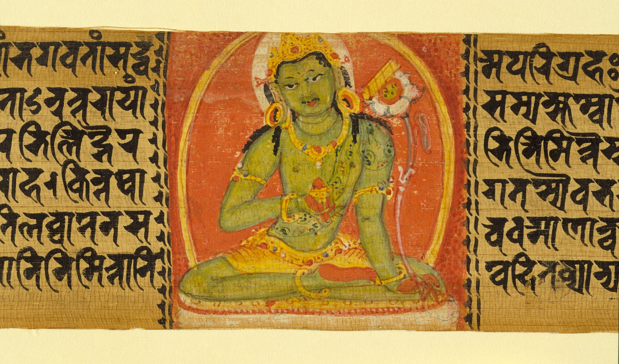 India, Bihar, circa 1050 Books Ink and opaque watercolor on palm leaf From the Nasli and Alice Heeramaneck Collection, Museum Associates Purchase (M.72.1.21) South and Southeast Asian Art